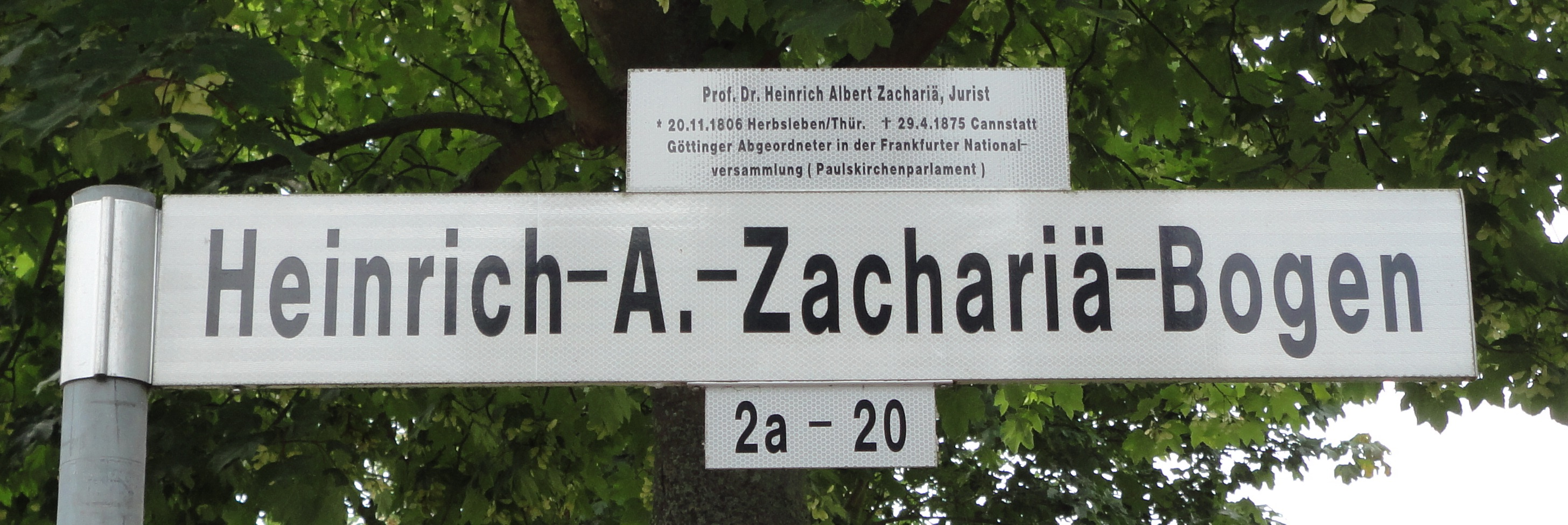 Göttingen-Weende, road sign Heinrich-Zacharia-Bogen